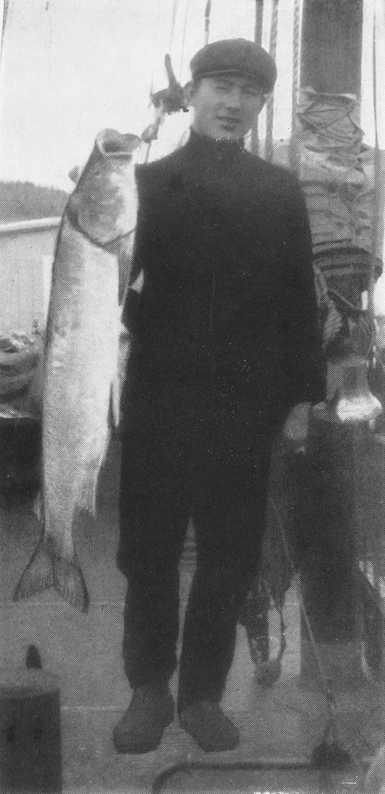 Alexei, the cook, with a nyelma (Stenodus nelma)